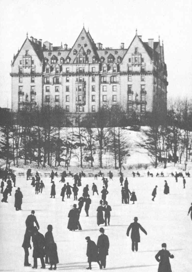 The Dakota building on a photograph from the late 1880s.